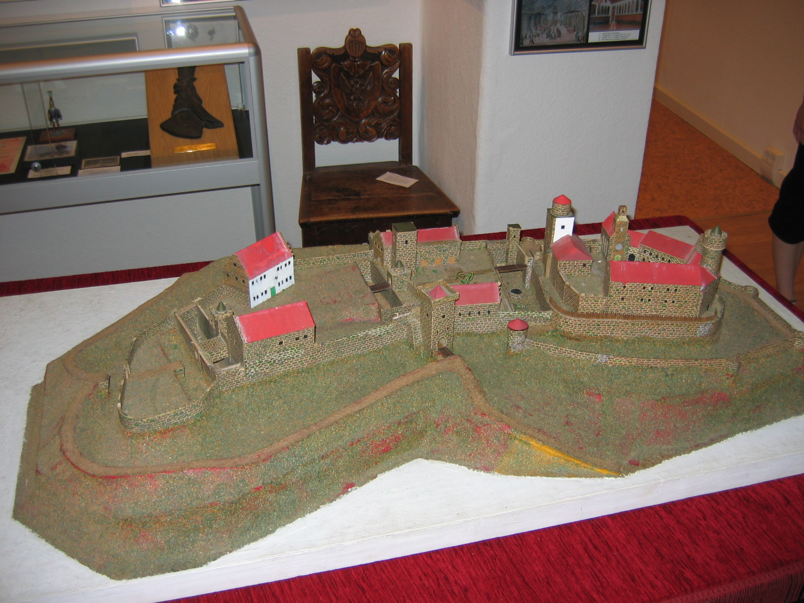 Model of castle Greifenstein (Bad Blankenburg/Thuringia), shown in the castle museum.